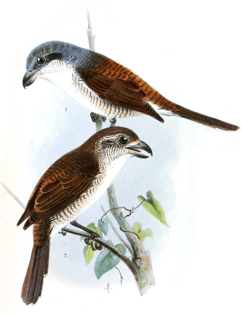 « Lanius magnirostris » = Lanius tigrinus (Tiger Shrike)